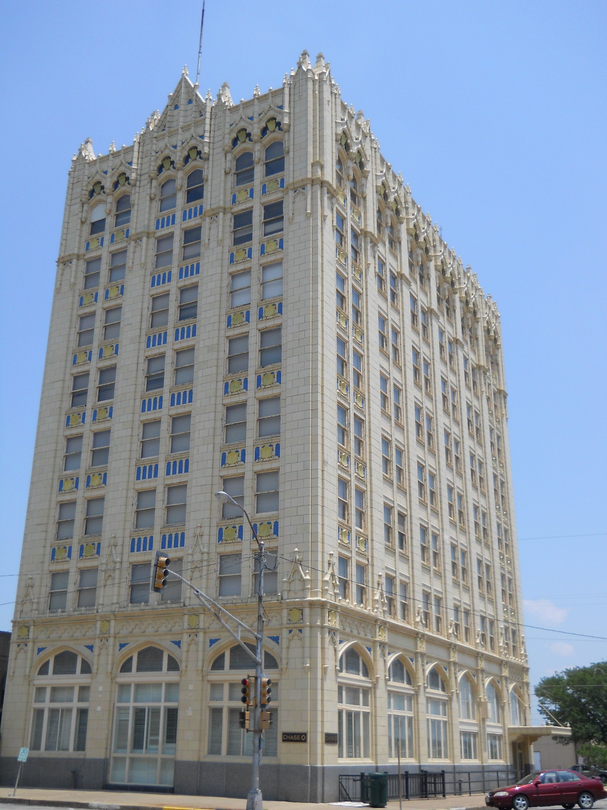 The State National Bank Building in downtown Corsicana, Texas was built in 1926.